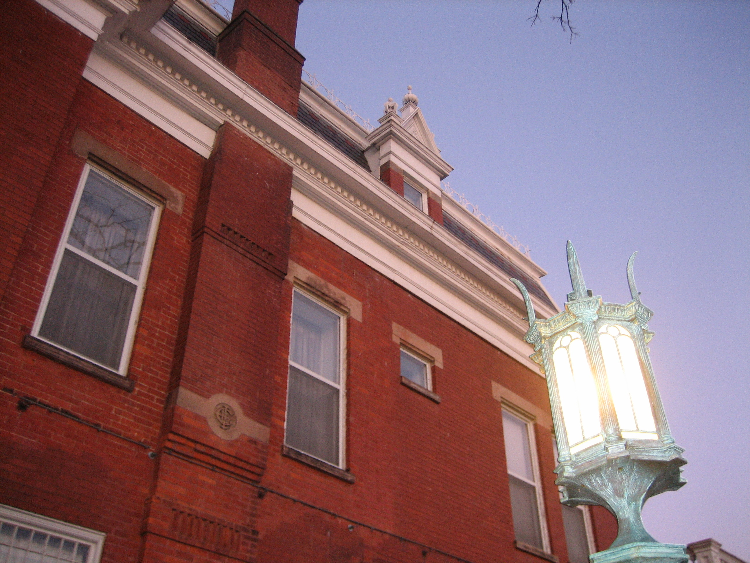 Ellwood House, DeKalb Illinois. National Register of Historic Places.